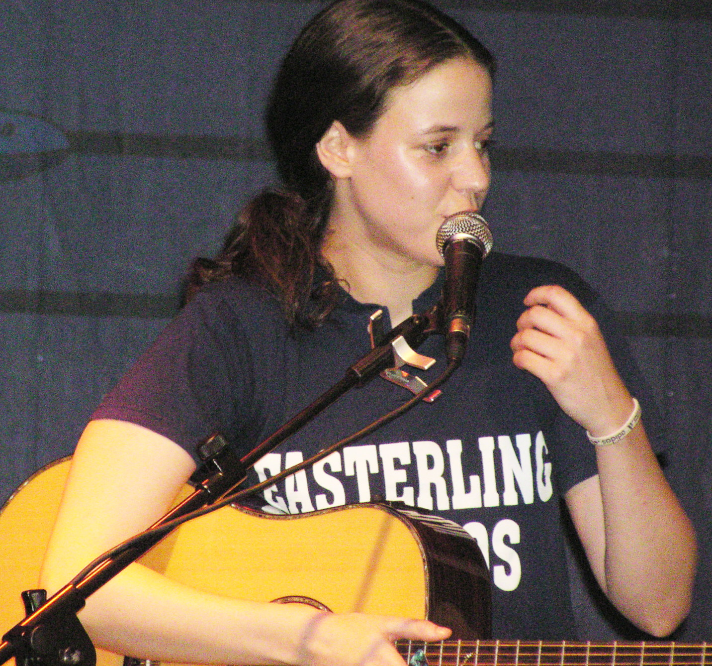 Rona Kenan on a 22nd July, 2004 concert at the Yellow Submarine (Jerusalem, Israel) concert club.